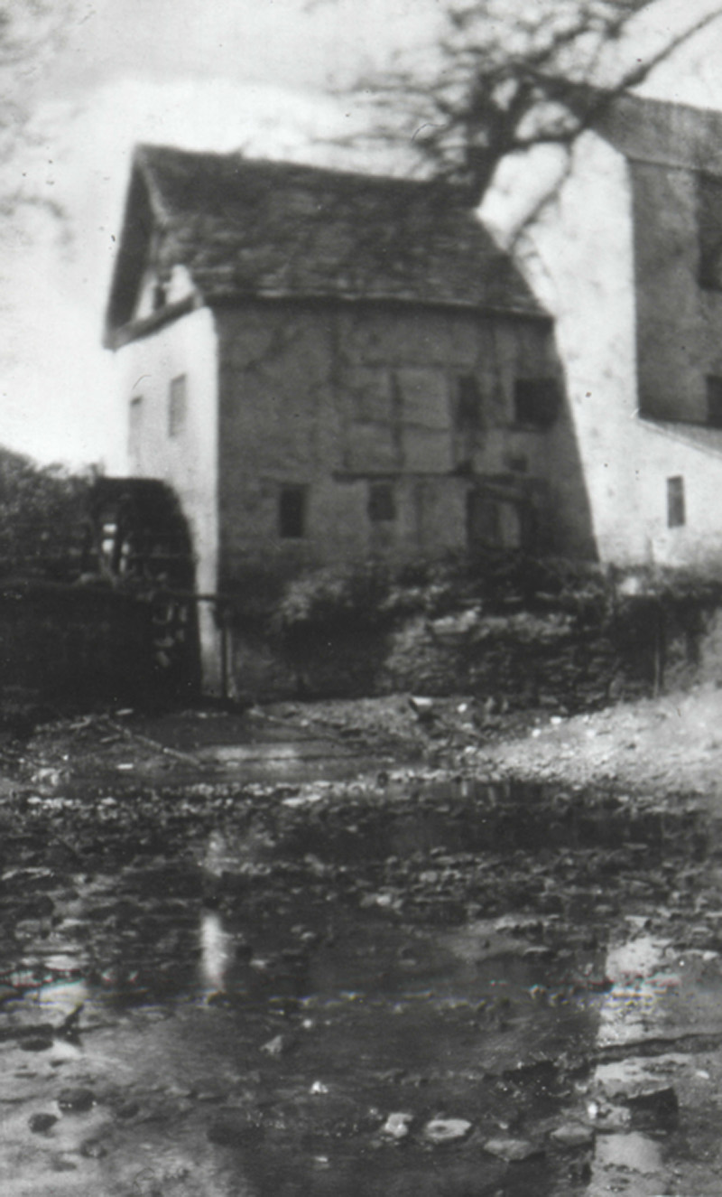 Wonastow Mill including the wheel by W.A. Call. Monmouth Museum identity number: M1928.231